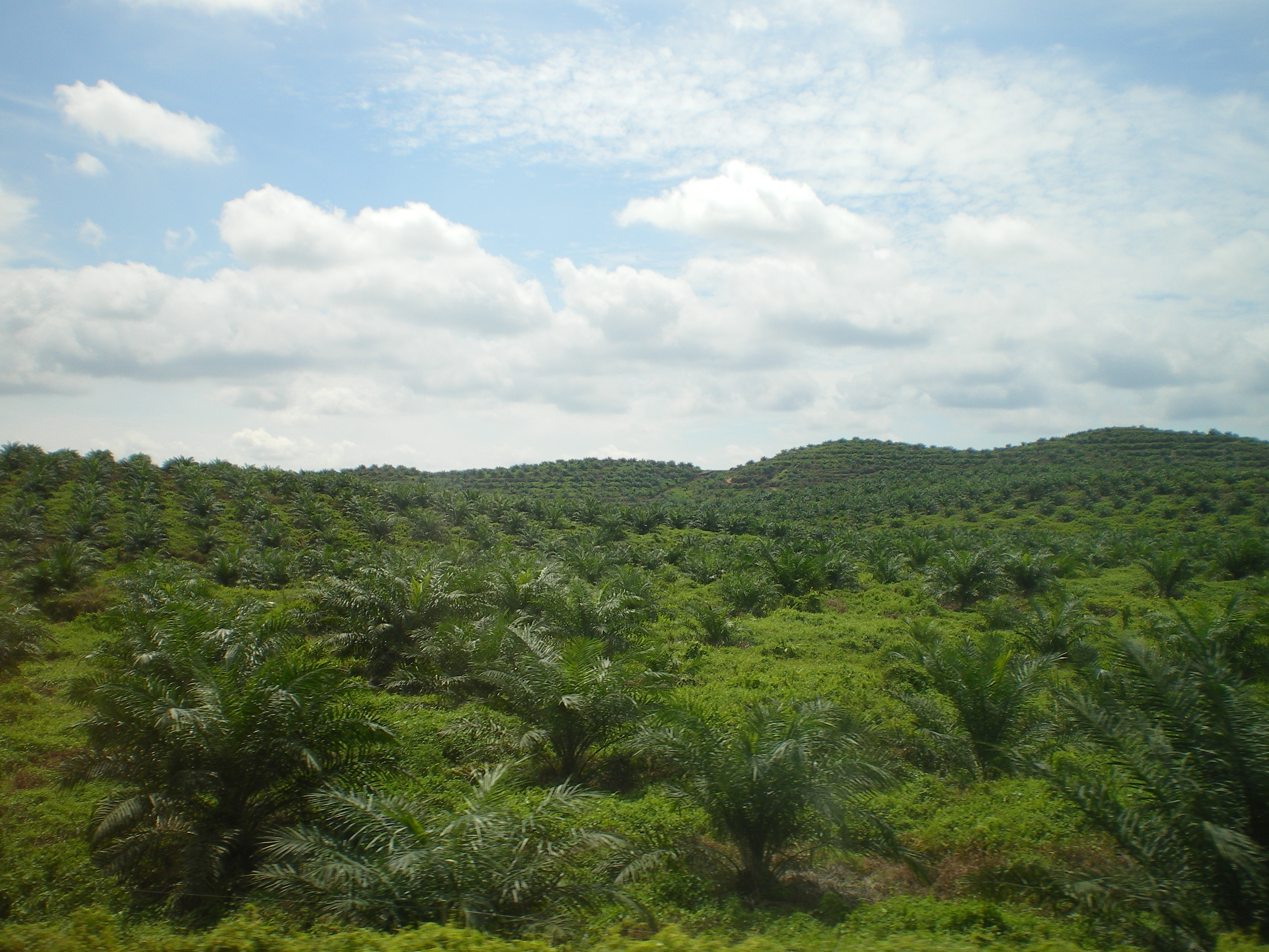 Young palmoil-plantation in East-Malaysia